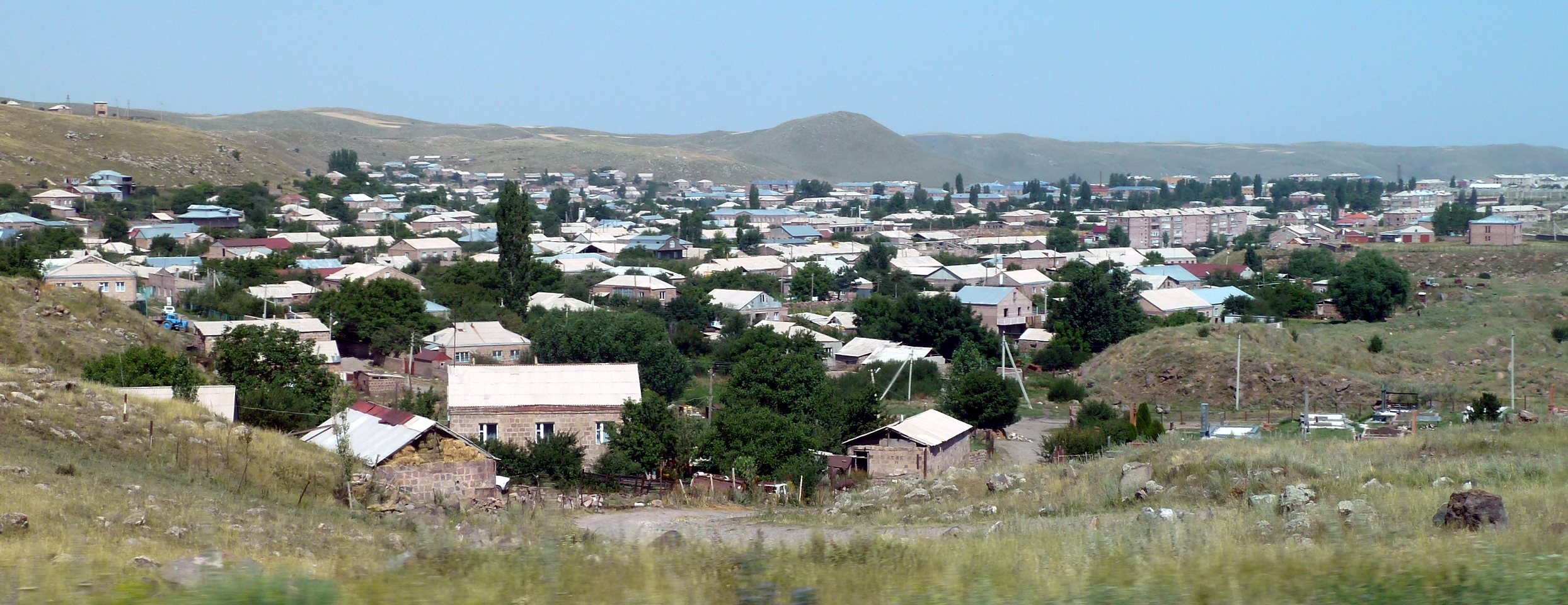 Dzorakap (on front) and Maralik (on back) from M-1 highway